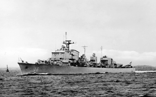 The Swedish destroyer HMS Öland.